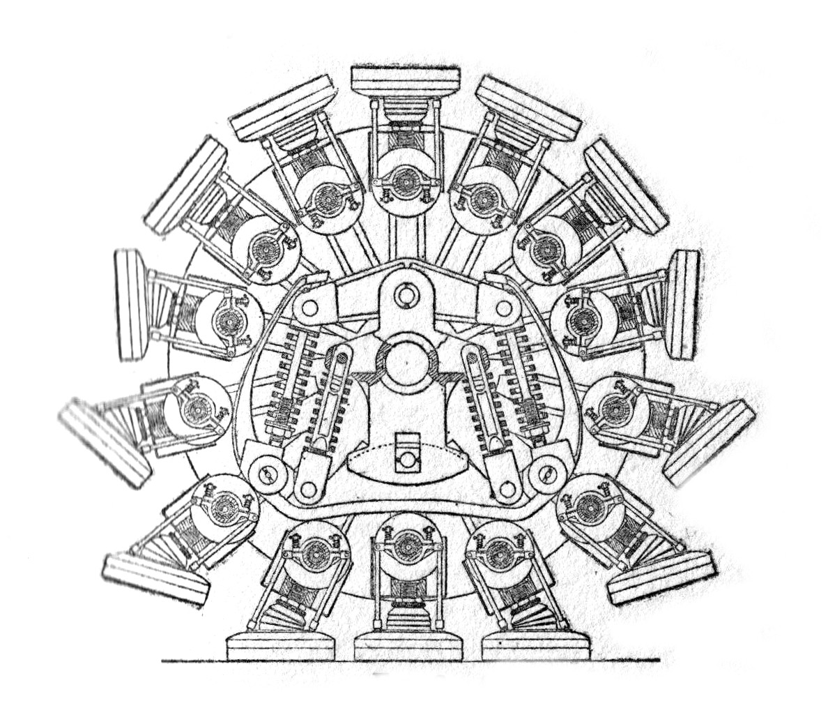 Pedrail wheel (Wonders of Mechanical Ingenuity, 1911).jpg